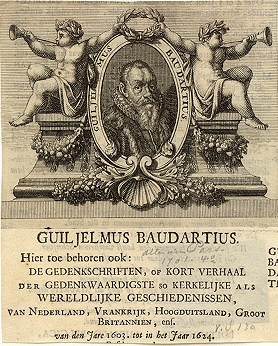 portret of Baudartius